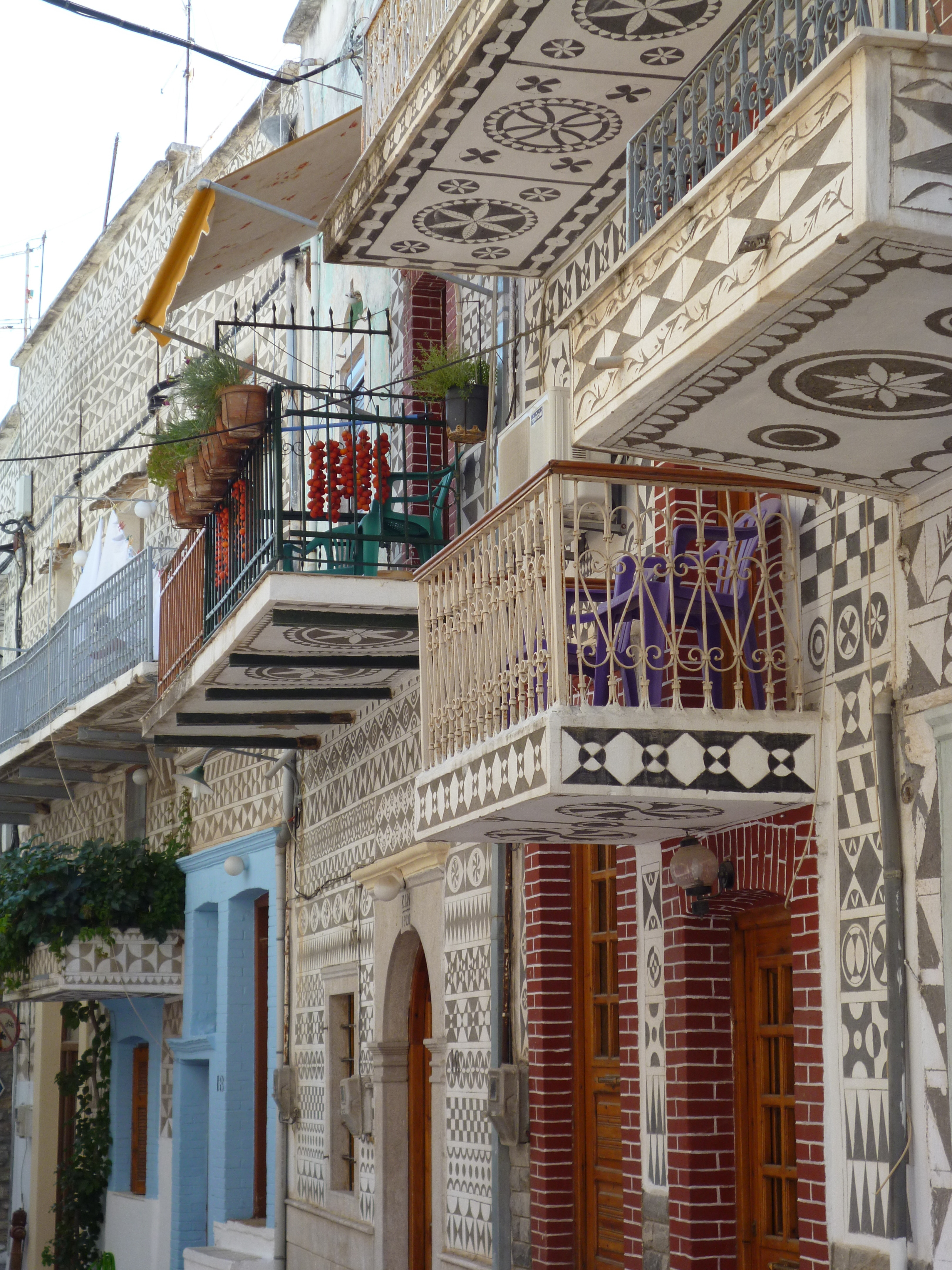 "Xysta" (Black and white facade decorations) - Pyrgi, Chios«Πυργί»